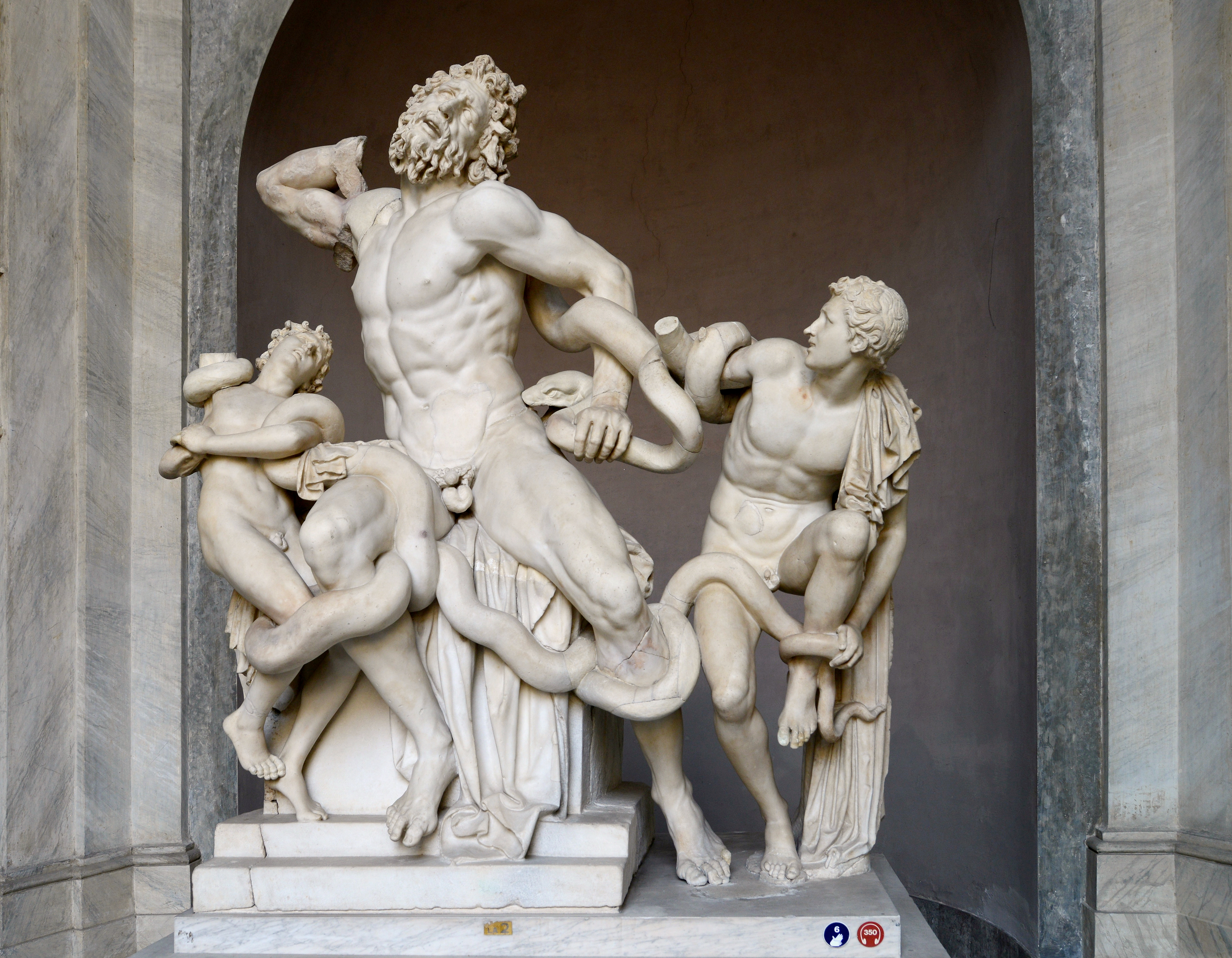 Laocoonte his sons. Vatican Museums